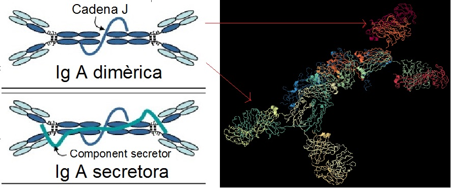 Ig A2 secretory